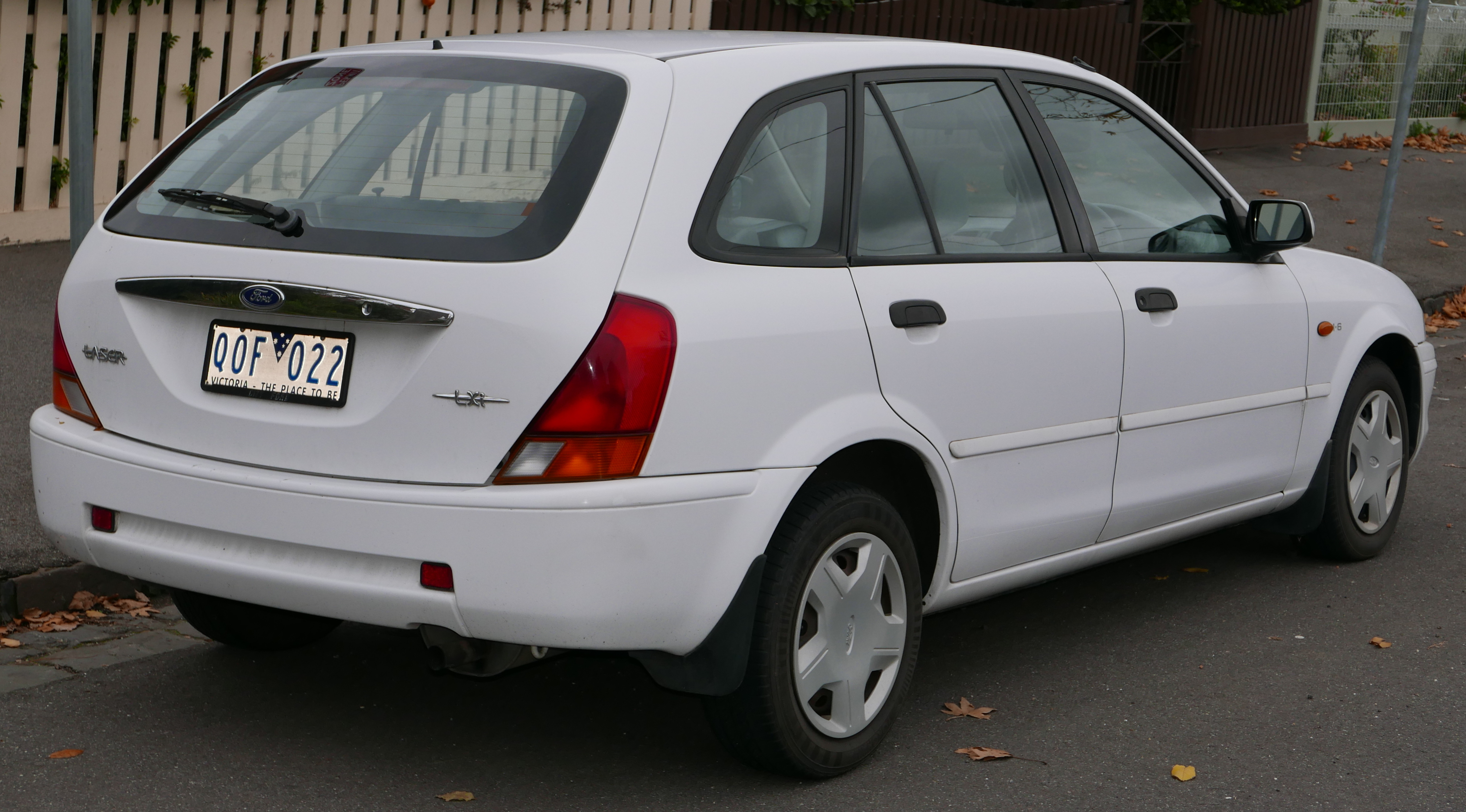 2000 Ford Laser (KN) LXi hatchback. Photographed in Fitzroy North, Victoria, Australia. Vehicle registration enquiry resultsJurisdictionVictoriaRegistrationQOF022Chassis codeJC0AAASHPLYE32216Engine codeZM427624Compliance date2000-09Year of manufacture2000